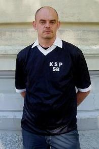 Swede dressed in a KSP 58 shirt